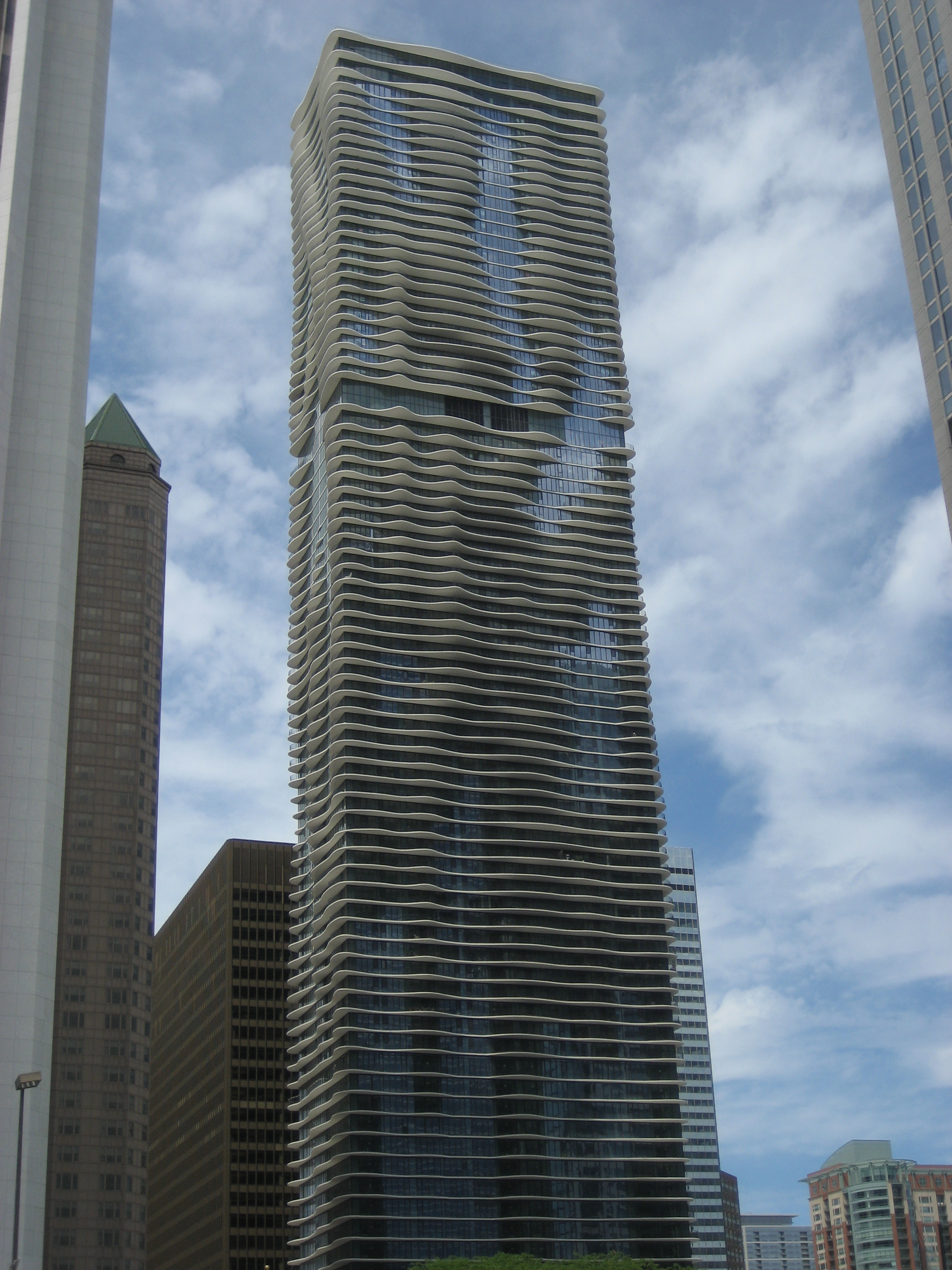 Picture of Aqua building in Chicago